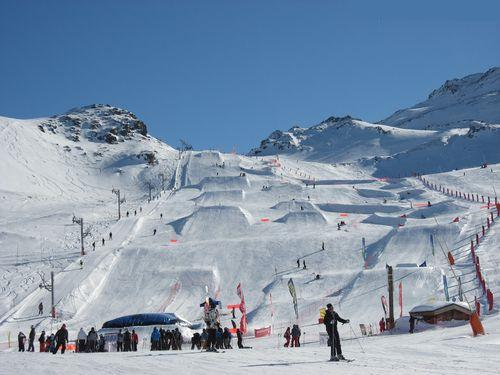 It's a Snowpark in Val Thorens(The Three Valleys)